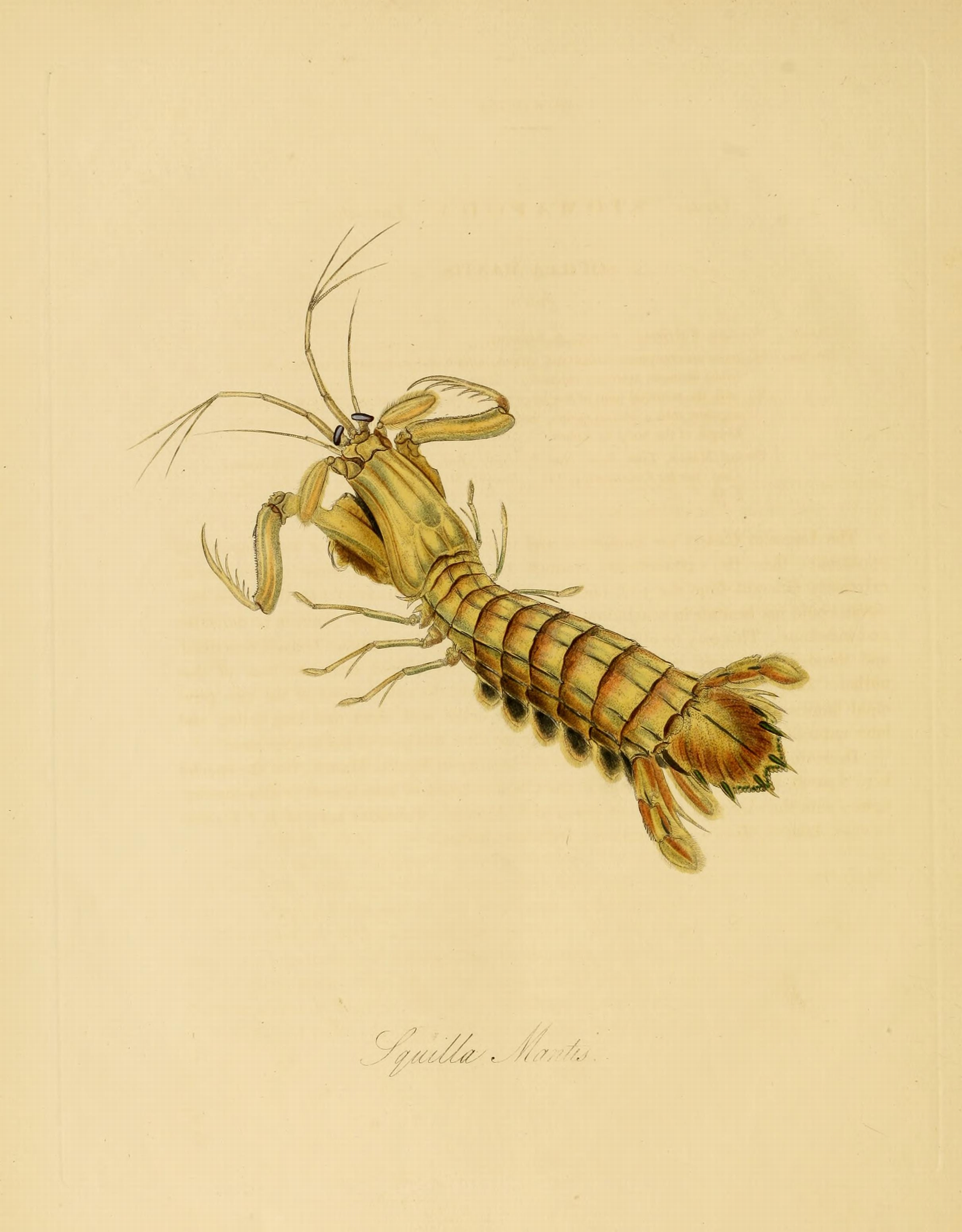 Pl. 49 of "Natural history of the insects of China". Warning: some taxa/names may be misidentified/misapplied or placed in a different genus. [Donovan text of 1798 (ECCO TCP): Cancer Mantis,[illustration caption and name in Westwood 1838 revised text]: Squilla Mantis.